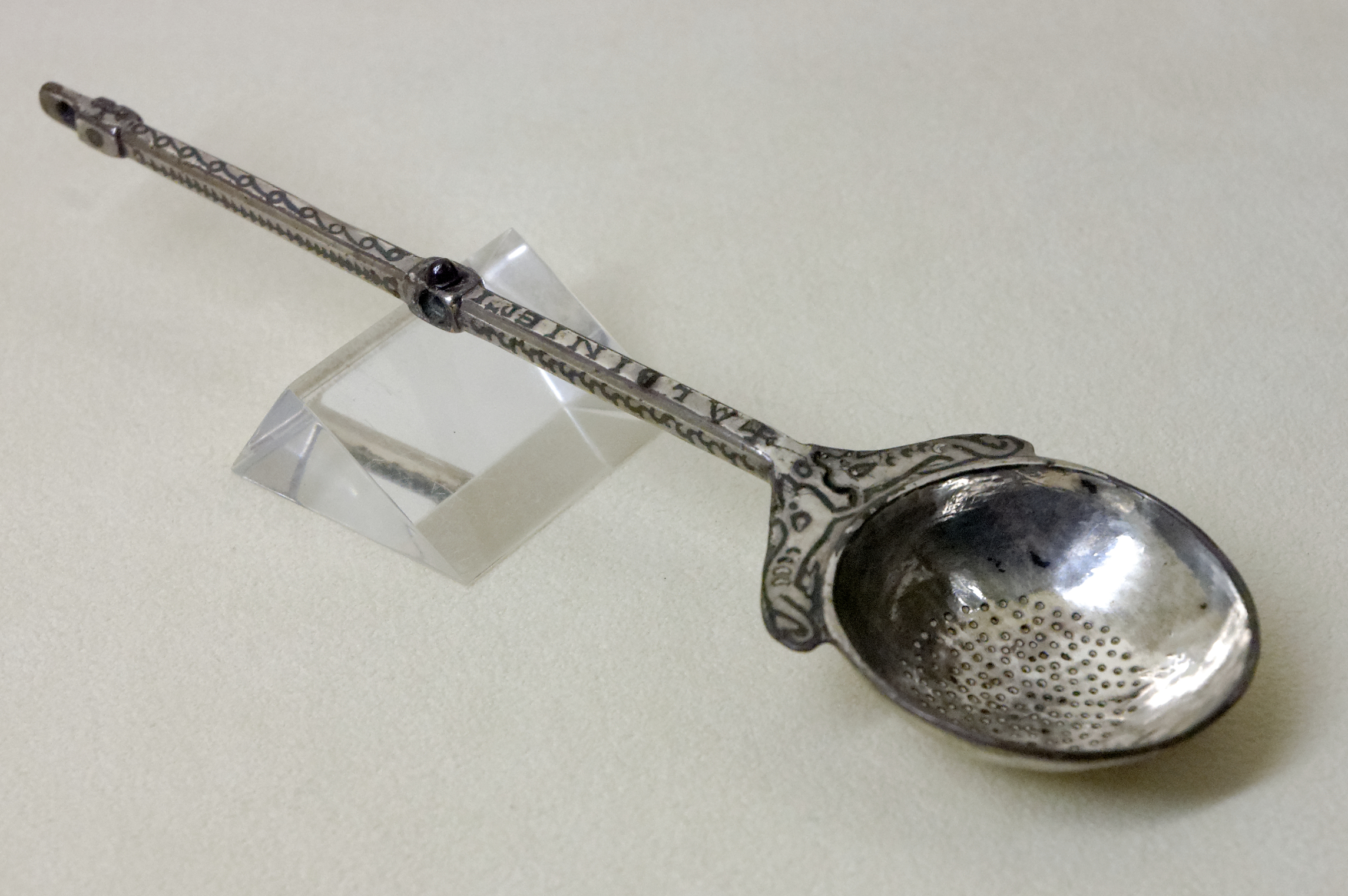 Liturgical strainer (colander) (made to filtrate wine or snow) inscripted with the name of a "Bishop Albinus", maybe St. Albinus, bishop in Auvergne from 529 to ca. 550.